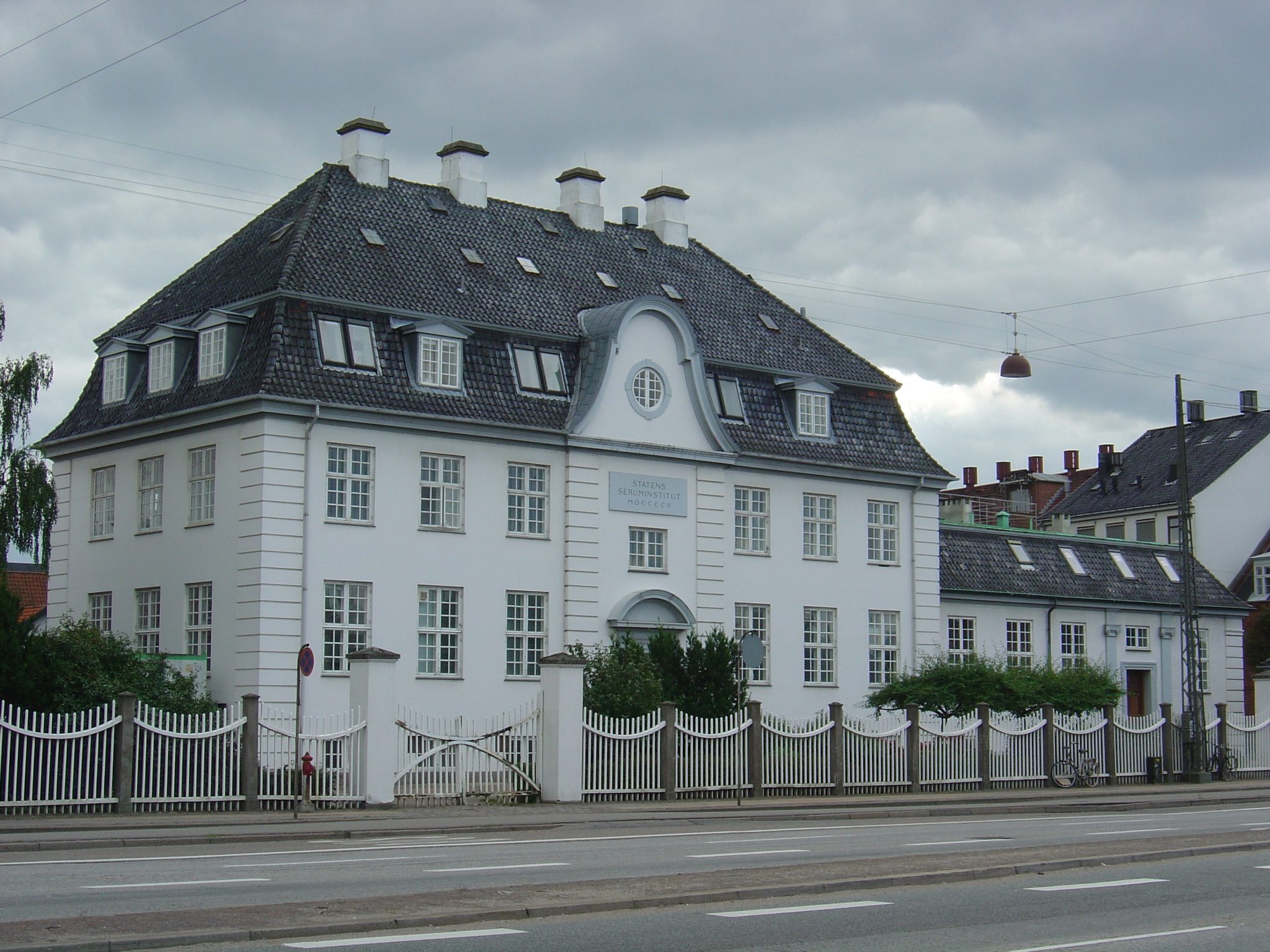 Statens Serum Institut - The main building of the original serum institute in Denmark build in 1902 is represented on the company logo of Statens Serum Institut and located on Amager, Copenhagen. Seen from the northeast side from Amager Boulevard.